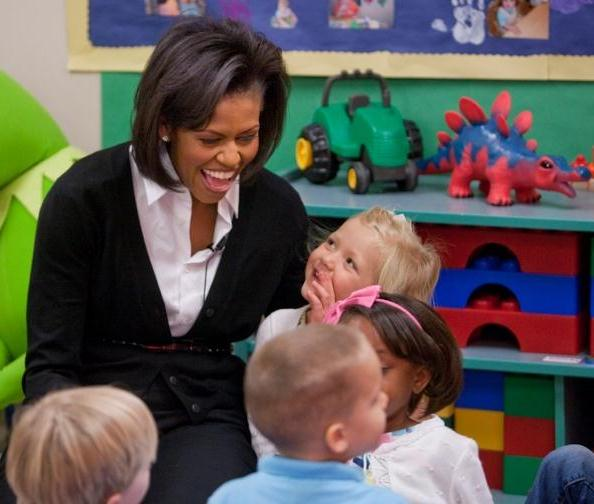 During a reading of Dr. Seuss's 'Cat in the Hat' Mrs. Michelle Obama and 5-year-olds at the Prager Child Development Center at Ft. Bragg, N.C., enjoy each other's company during the First Lady's first visit outside the Washington, D.C., metropolitan area.